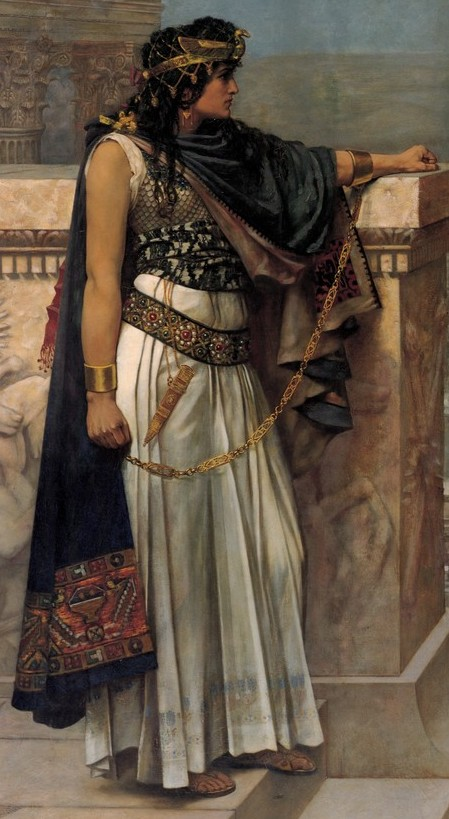 Queen Zenobia's Last Look Upon Palmyra.